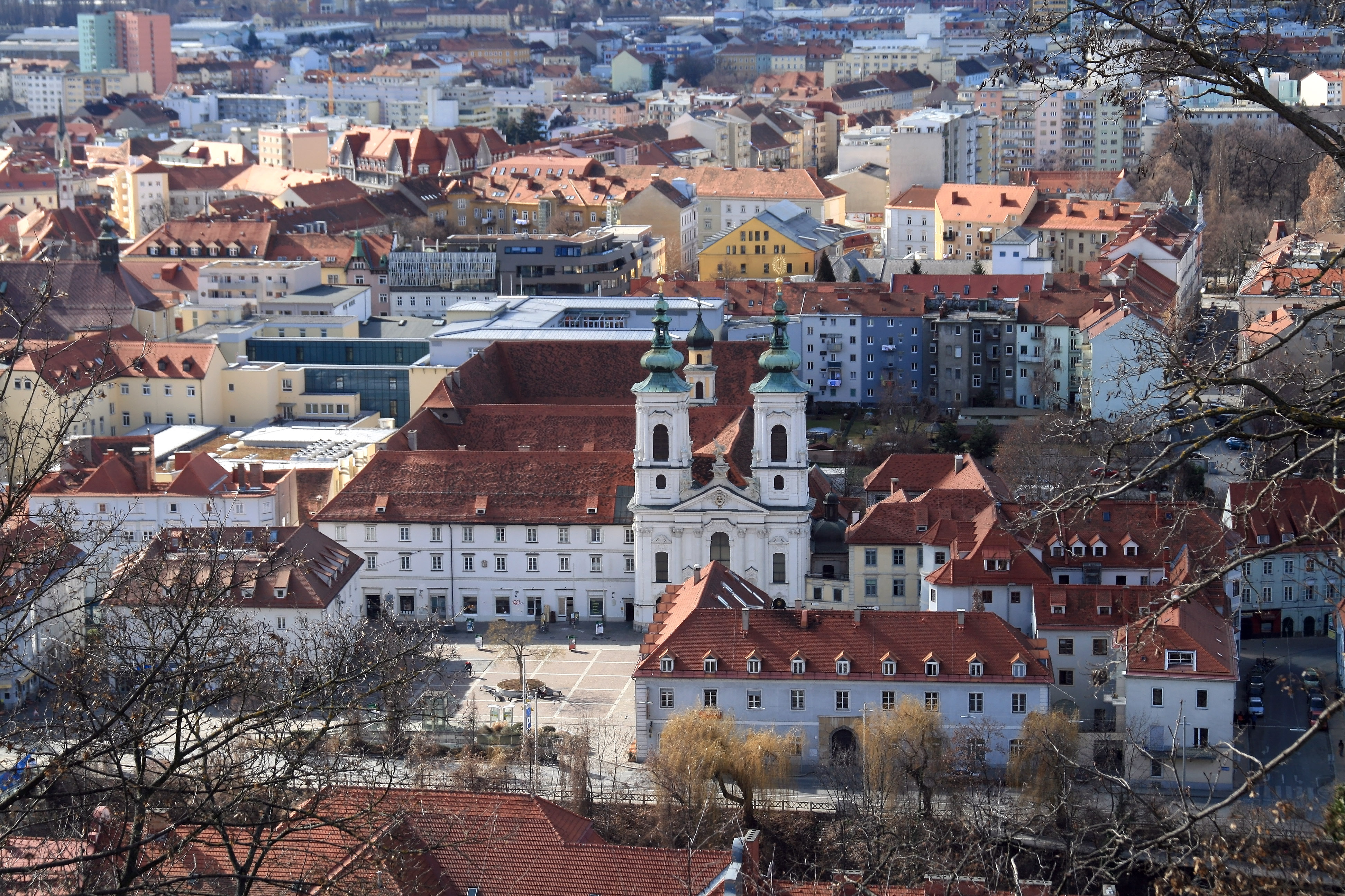 Graz (Styria, Austria), view west from Schloßberg, Mariahilferkirche.